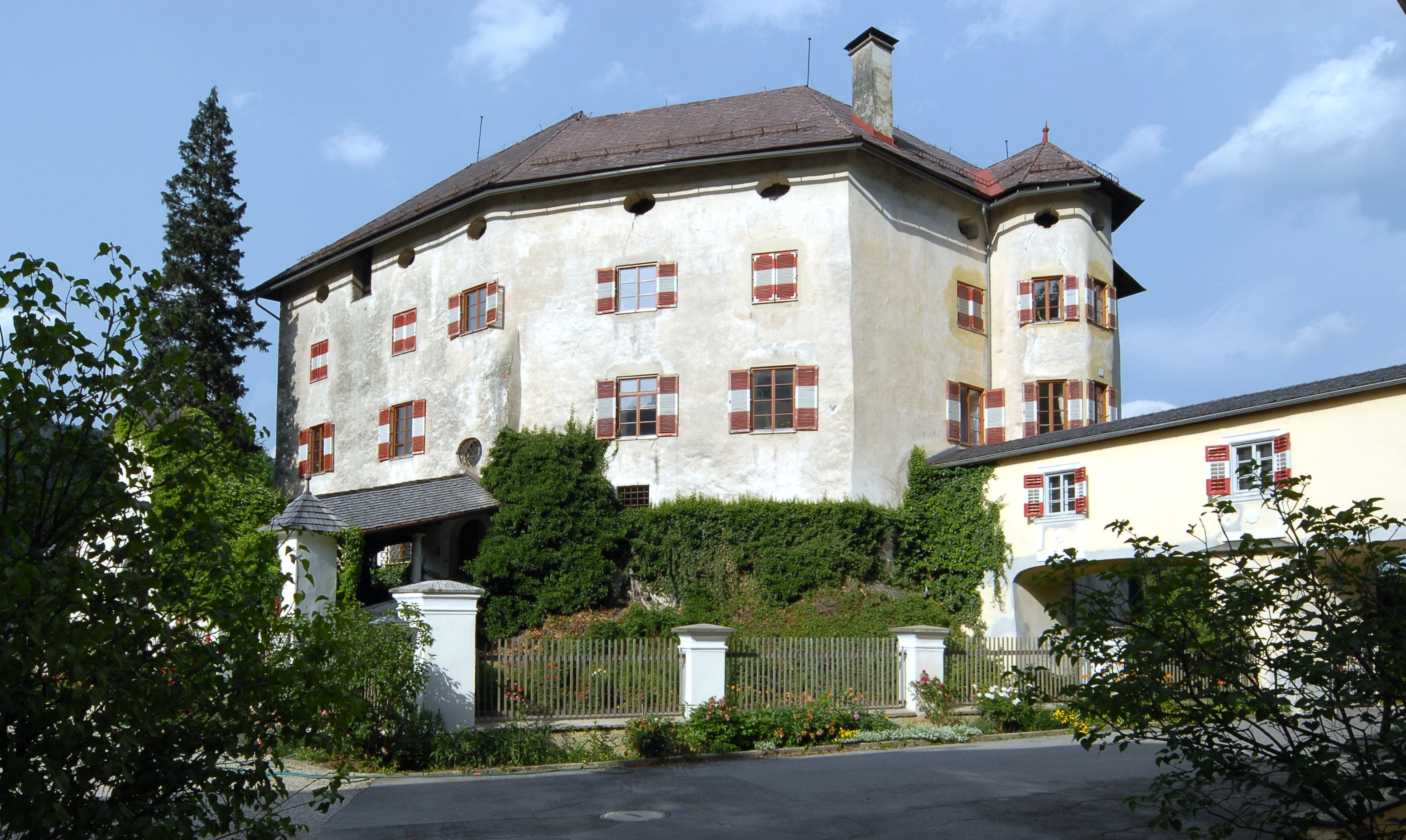 Castle Biberstein in Himmelberg, first mentioned in 1396, municipality Himmelberg, district Feldkirchen, Carinthia / Austria / EU